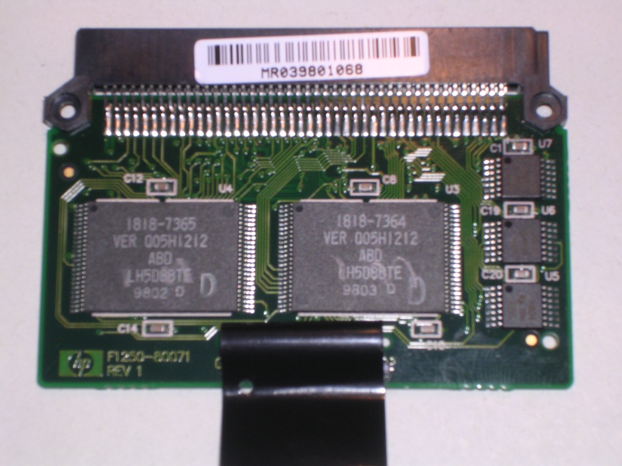 Memory Module of a HP 620LX PDA;System:W/CE 2.00 HP Part Number: F1250-80071